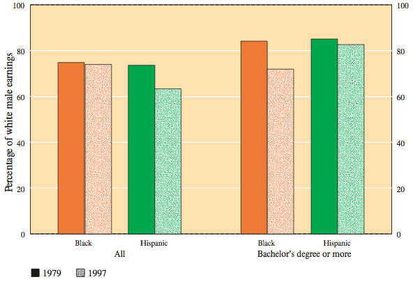 Racial Earnings Comparison of White, Blacks, and Hispanics 1979 and 1997